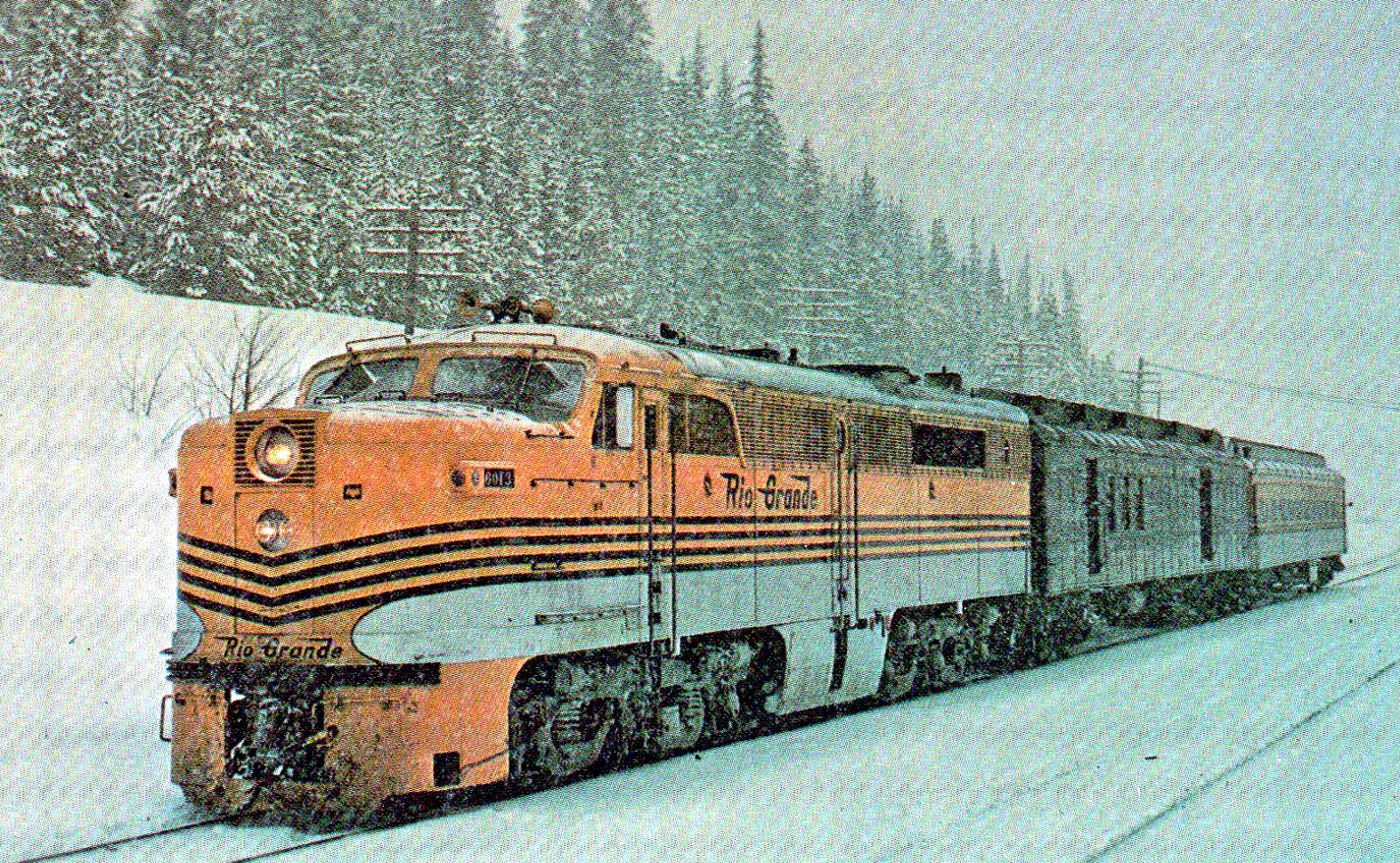 Postcard photo of the Yampa Valley Mail in a snowstorm.